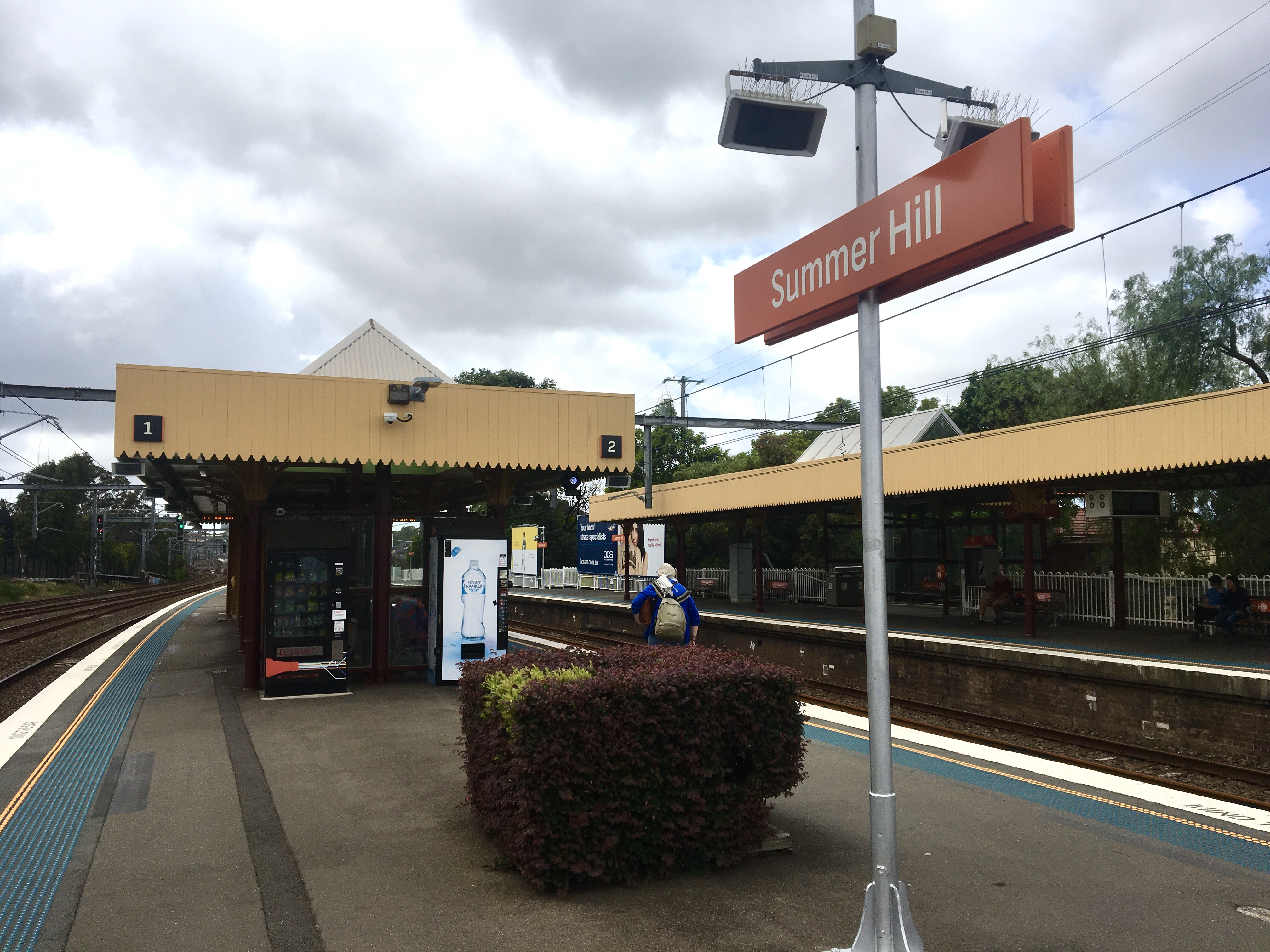 Depicted place: Summer Hill railway station